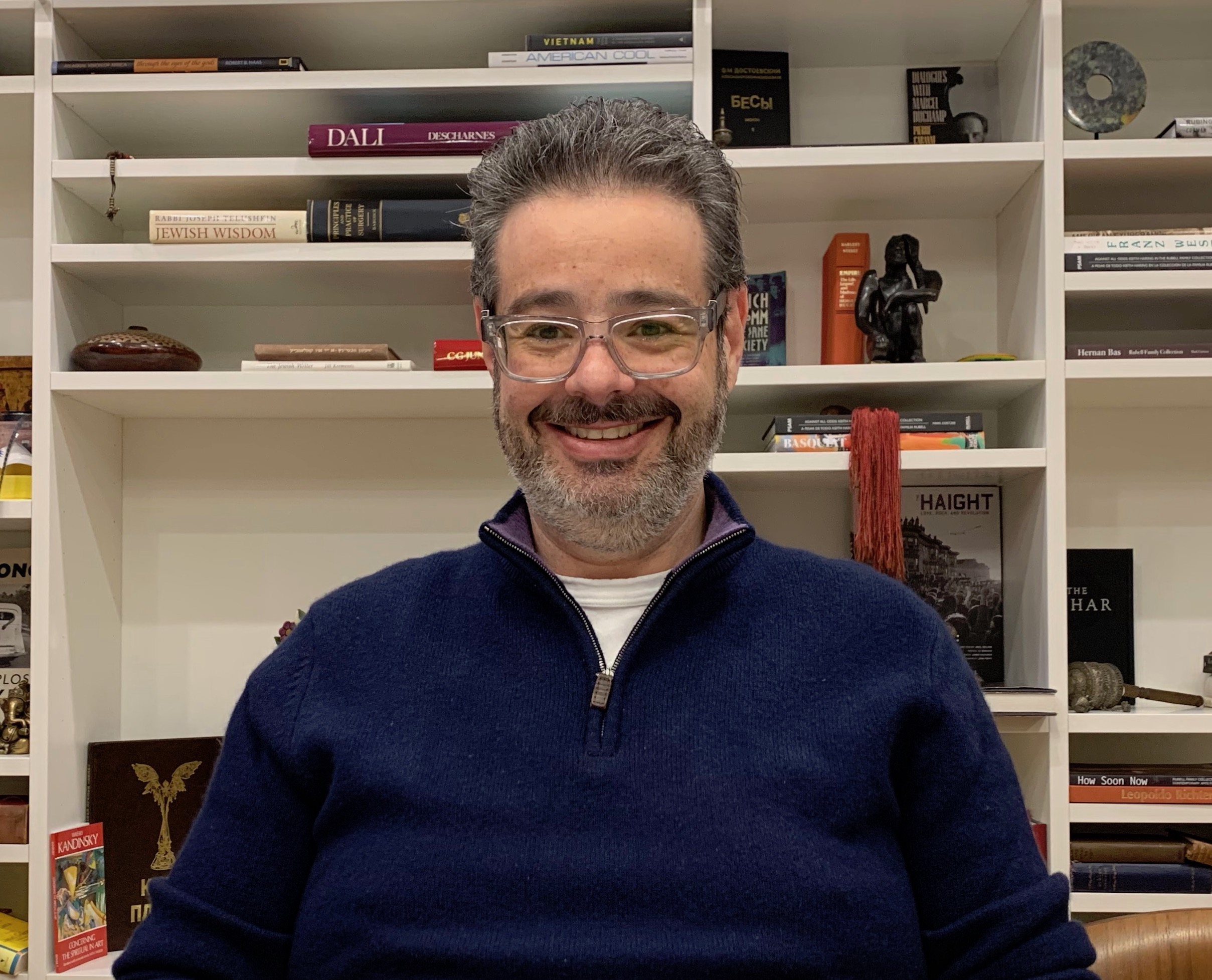 Isaac Lee Possin, Public Figure